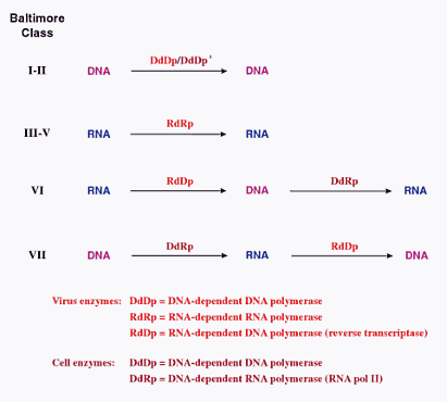 Baltimore Classification